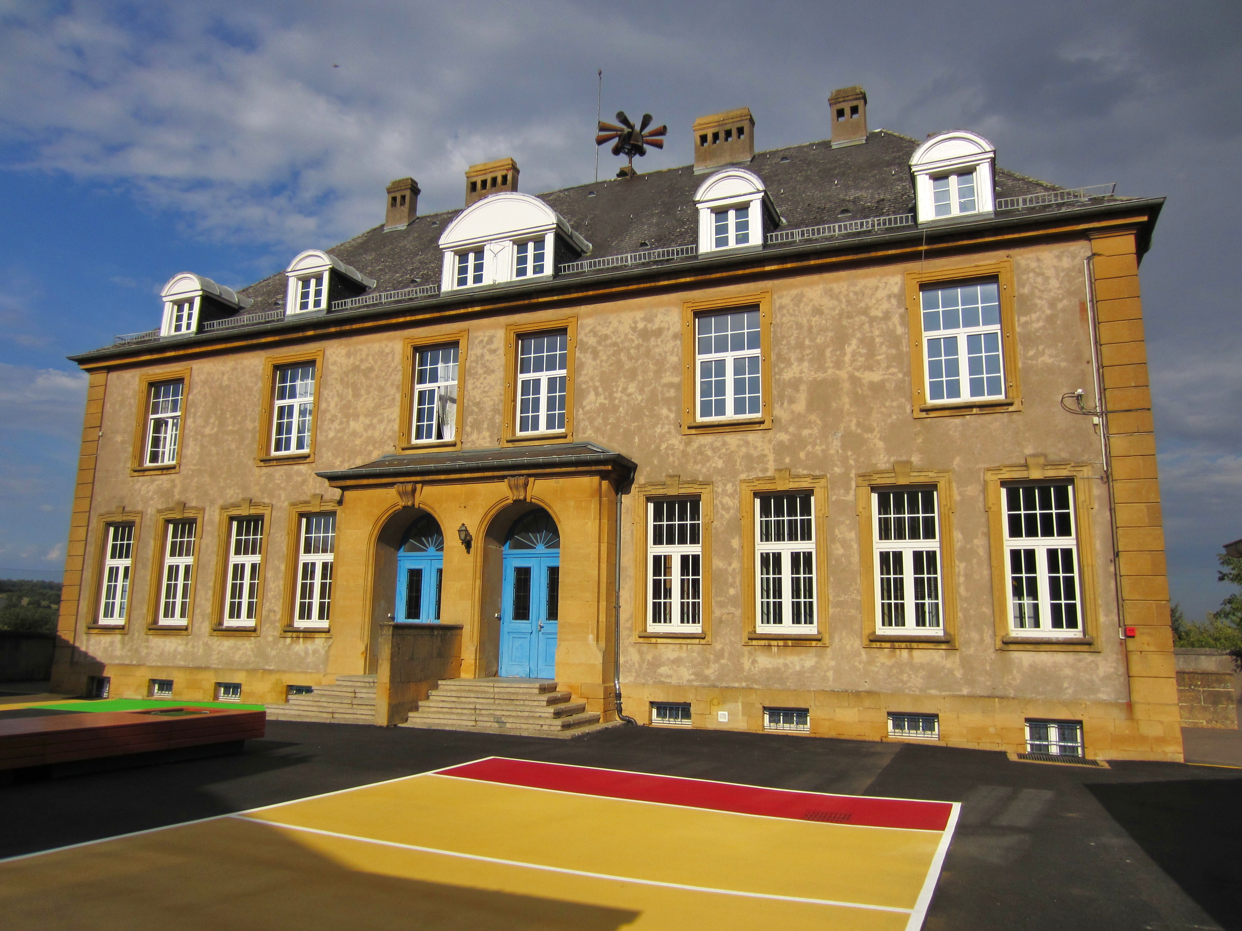 Description ecole Norroy Veneur Date3 September 2011Sourcemon appareil photoAuthorAimelaimePermission(Reusing this file) ecole Norroy Veneur